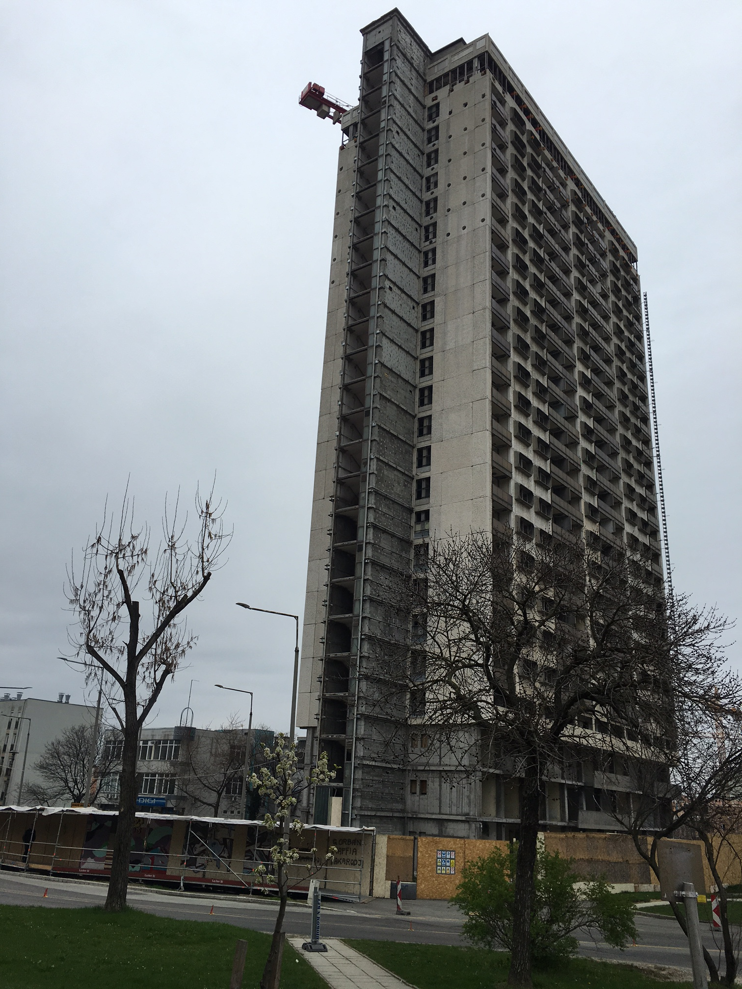 Start of bringing down the building by a crane